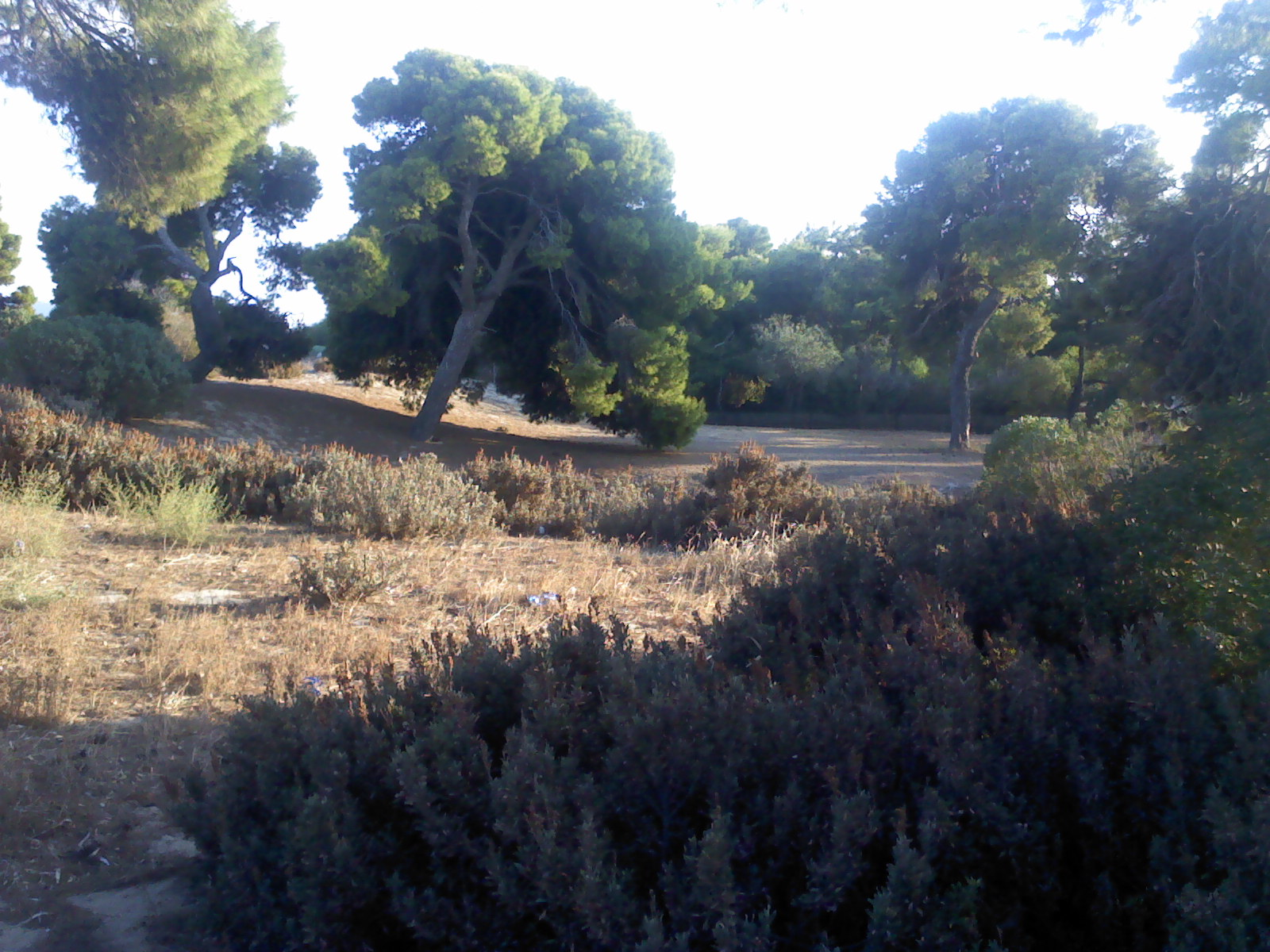 Ancient Temple Artemida